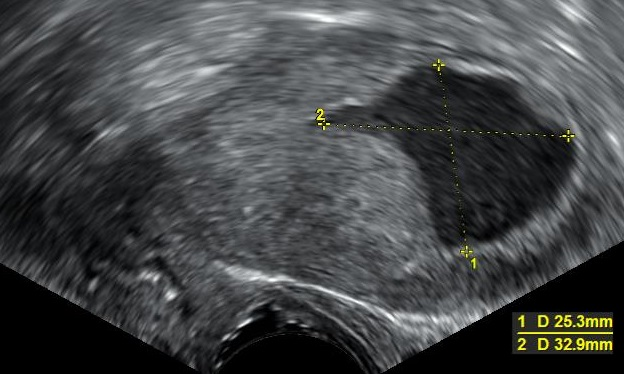 Transvaginal ultrasonography showing a uterine fluid accumulation in a postmenopausal woman seeking health care because if intermittent vaginal fluid discharge. Biopsy showed endometrioid_adenocarcinoma.